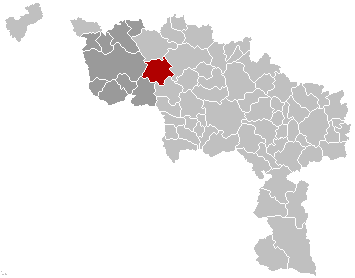 Map, municipality belgium Leuze-en-Hainaut